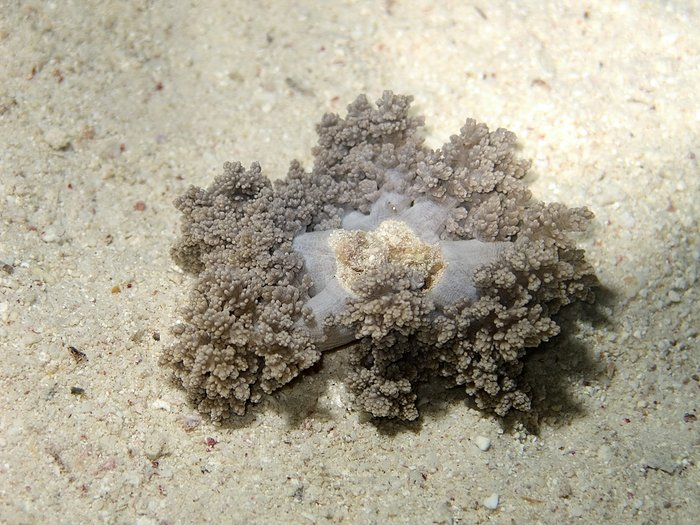 Actinodendron anemone